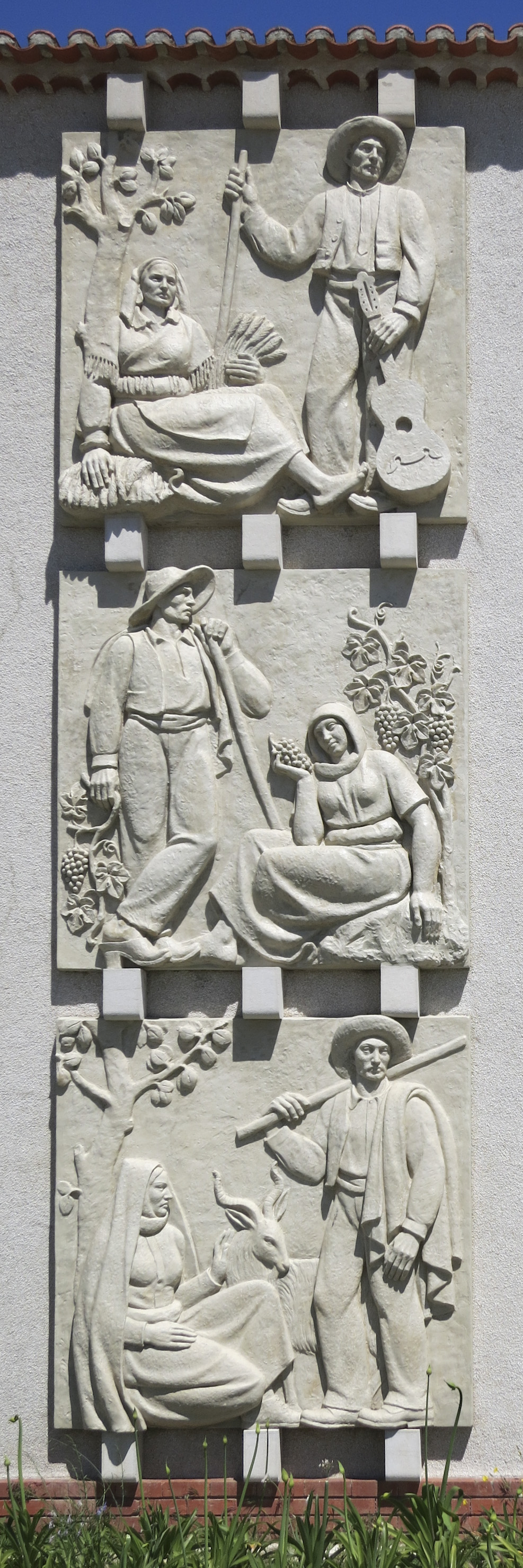 Júlio de Sousa, baixo relevo, fachada poente do Museu de Arte Popular, Lisboa